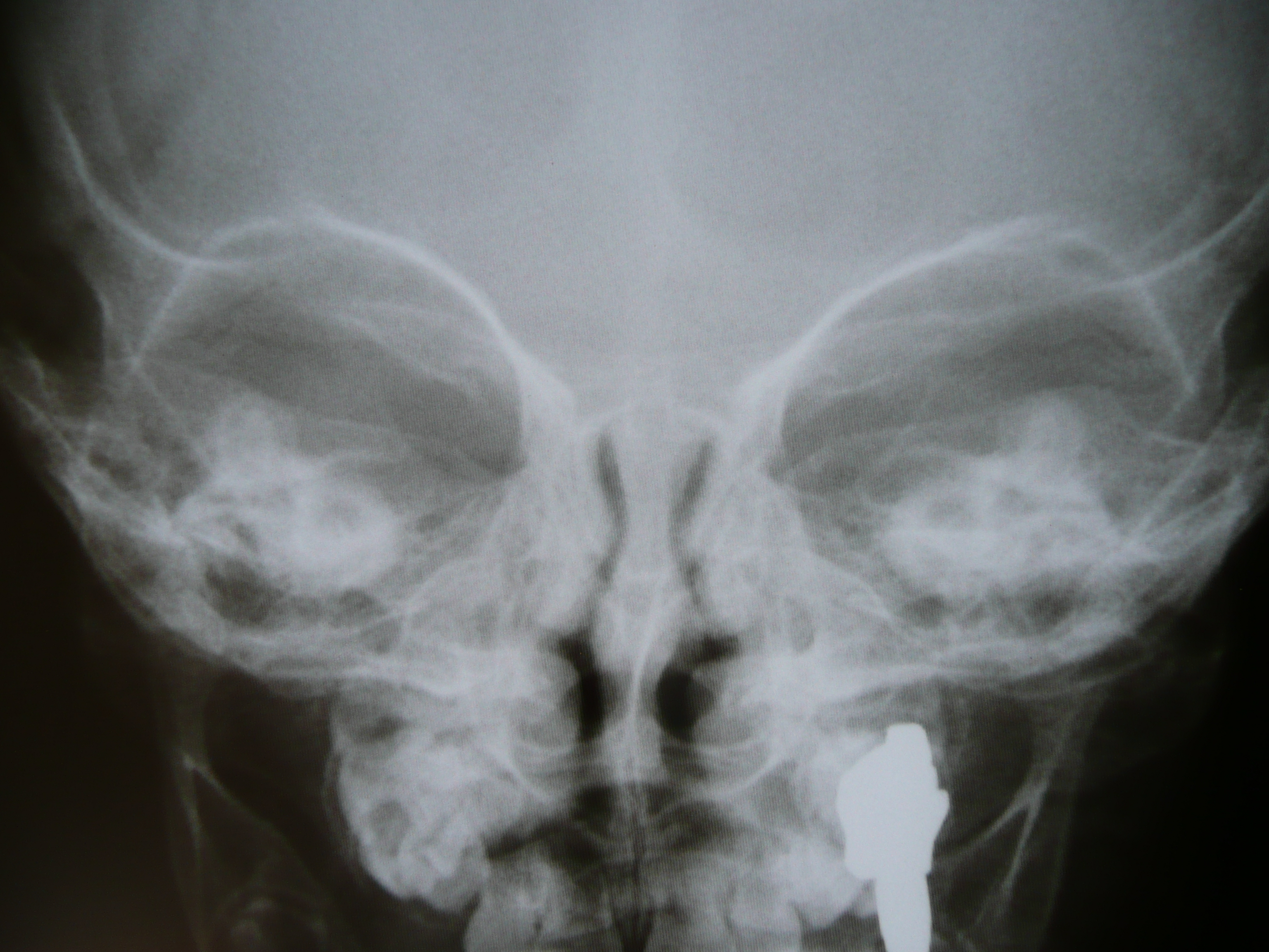 Medical X-rays